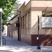 This is a building shot of Foothills School of Arts and Sciences, taken next to the Boise Public Library.